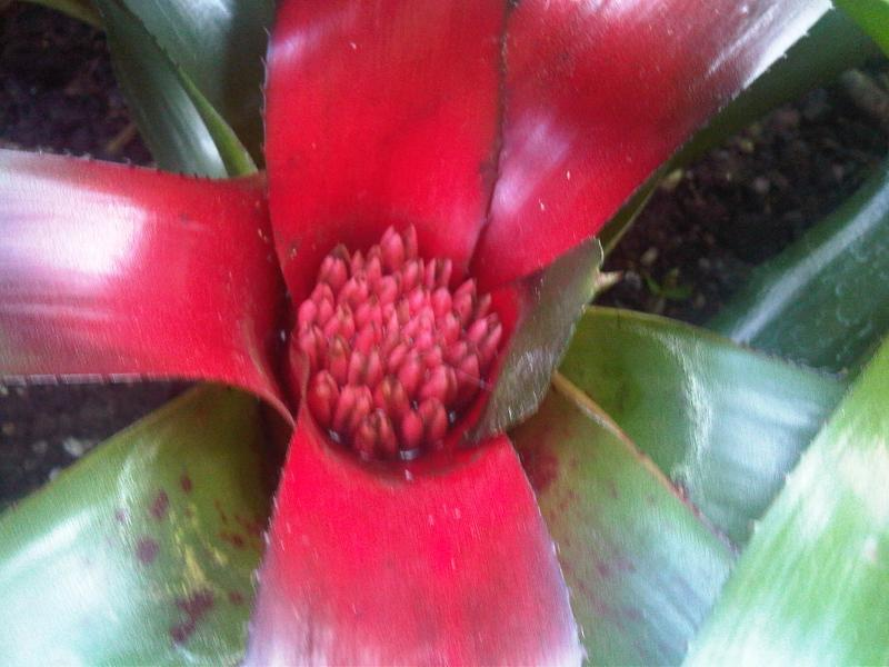 Neoregelia cyanea in Kew Gardens, England.